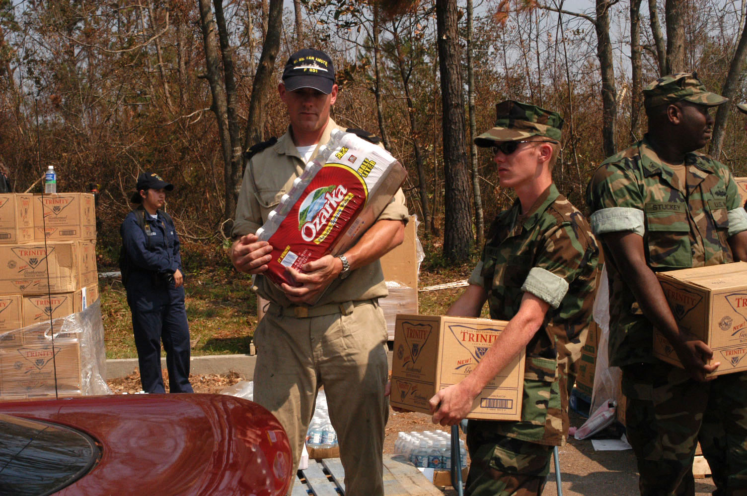 Gulfport, Miss. (Sept. 12, 2005) – U.S. Navy Seabees stationed in Gulfport, Miss., help load food and water into cars with the help of Dutch and Mexican Sailors. The Mexican and Dutch Navy are assisting the U.S. Navy in providing humanitarian assistance to victims of Hurricane Katrina. The Navy's involvement in the humanitarian assistance operations are being led by the Federal Emergency Management Agency (FEMA), in conjunction with the Department of Defense. U.S. Navy photo by Journalist 3rd Class Chris Gethings (RELEASED)